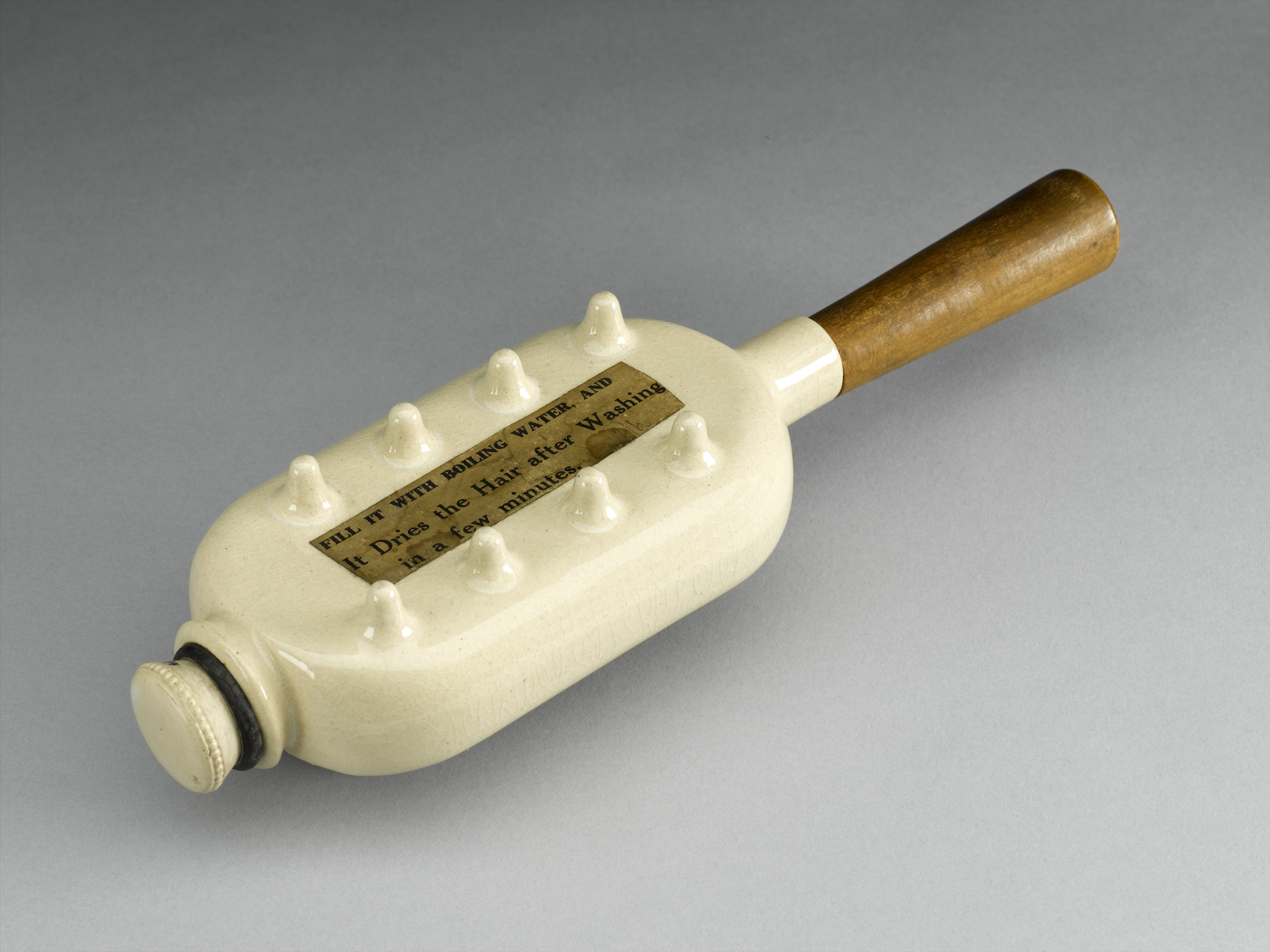 glazed stoneware hair dryer, one of two, with wooden handle and stopper, 'Thermicon' made by Hincks & Co., 20 Bucklersbury, London EC, maker, English, 1880-1900. Full view, graduated grey background. Wellcome Images